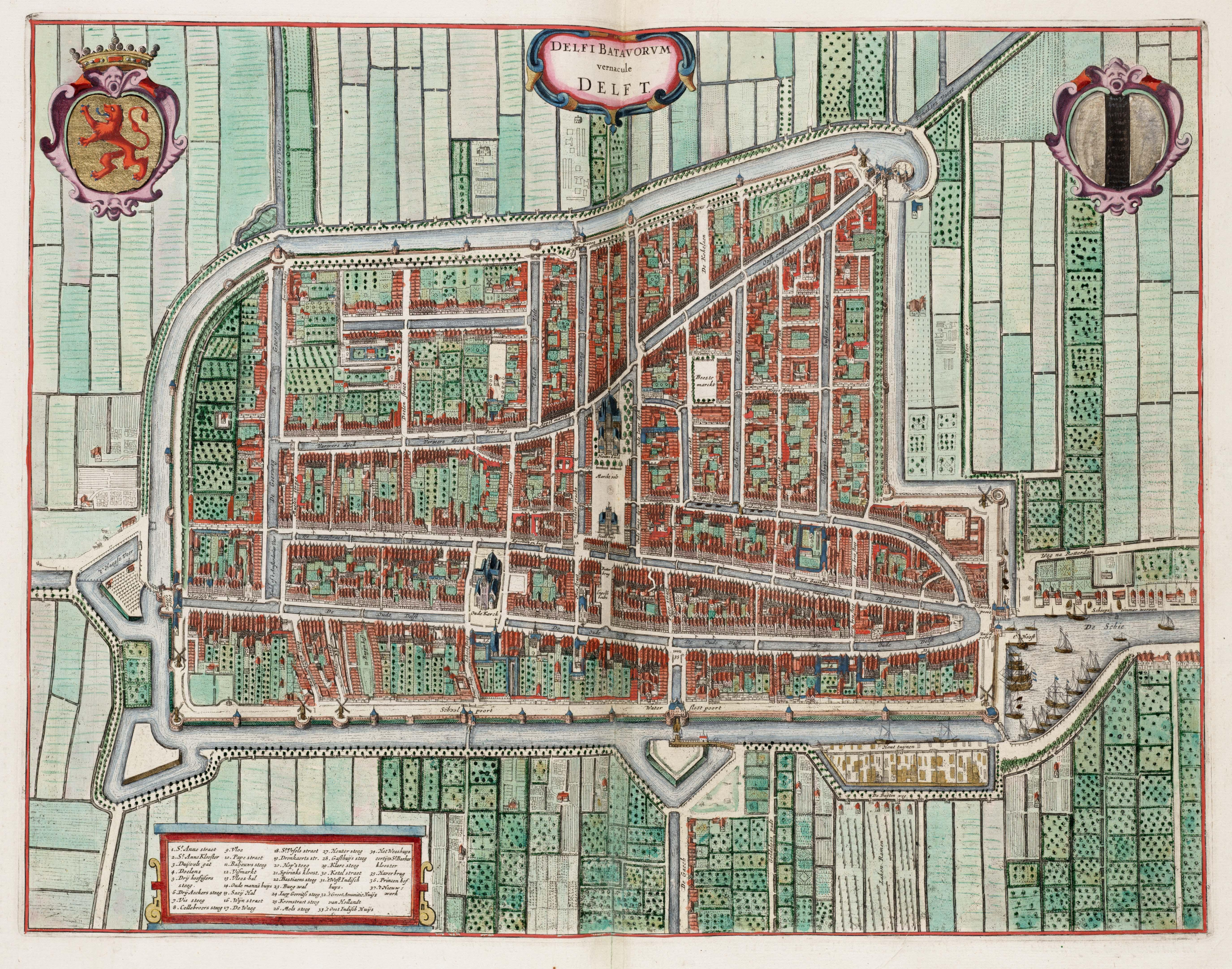 Map of Delft